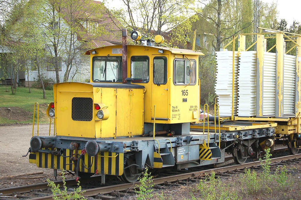 A VR Class Tka6 track-lorry number 165 parked at Humppila station in Finland